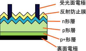 結晶シリコン型太陽電池の代表的構造 Typical Structure of crystalline Silicon solar cells (in Japanese)